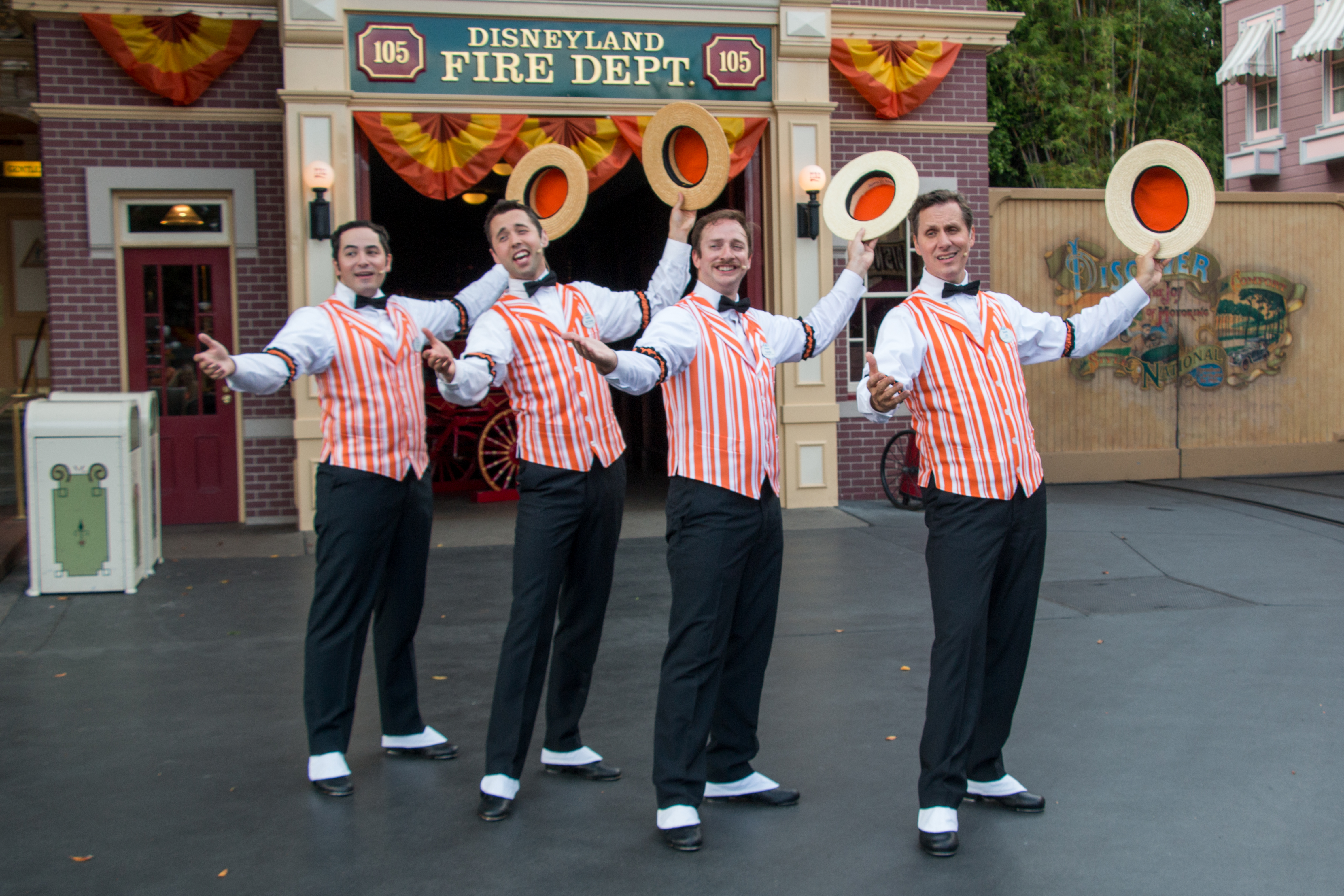 The fantastic Dapper Dans performing on Main Street during Halloween time at Disneyland.